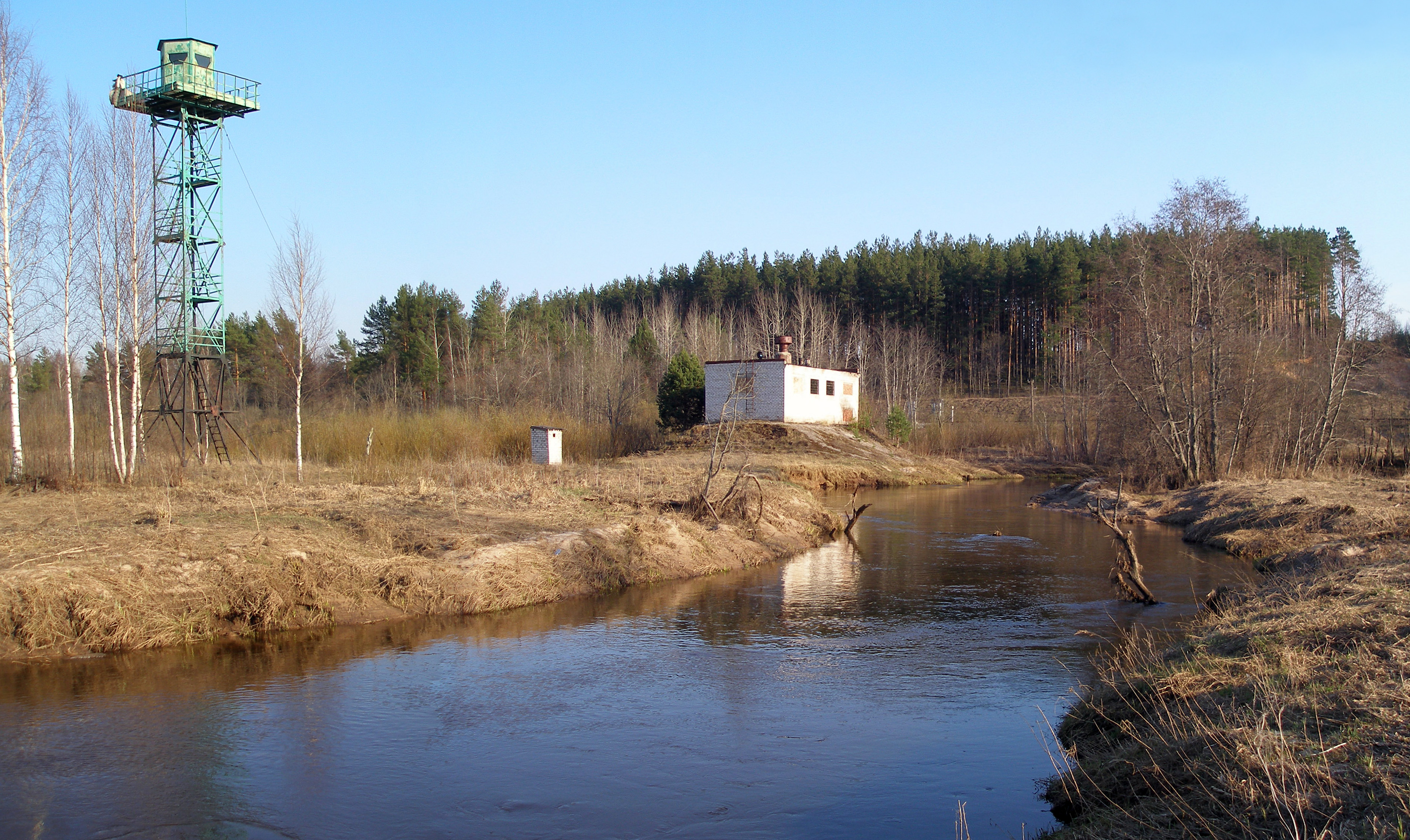 Piusa, the border river of Estonia and Russia near Pechory. Picture taken from Estonian territory, looking at Russia.